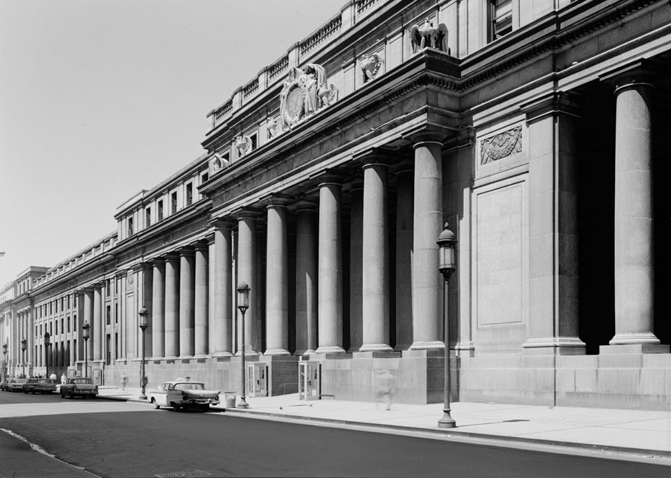 Pennsylvania Station (New York City) - Exterior view (31st St.)